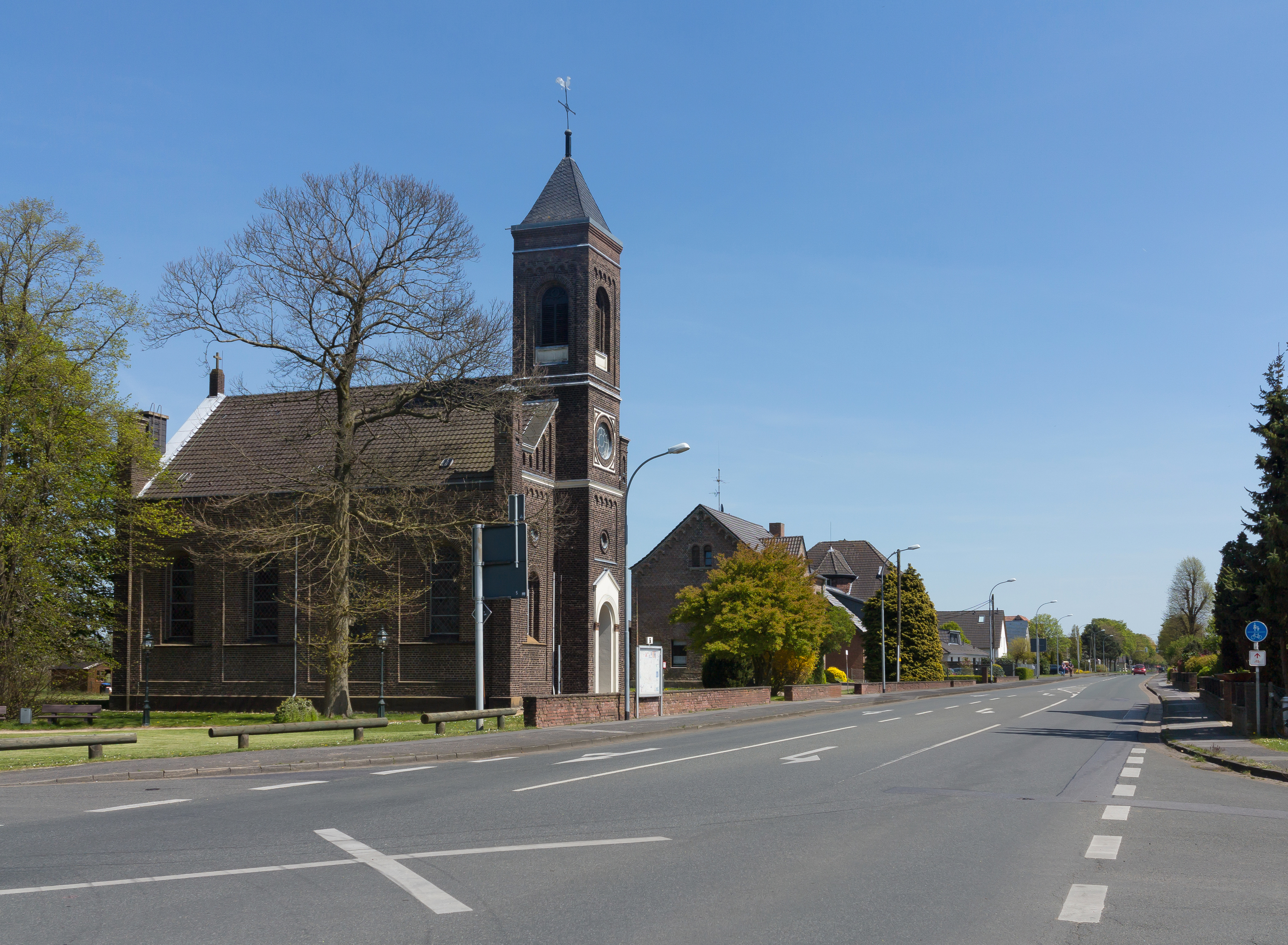 Bönninghardt, reformed church This is a photograph of an architectural monument.